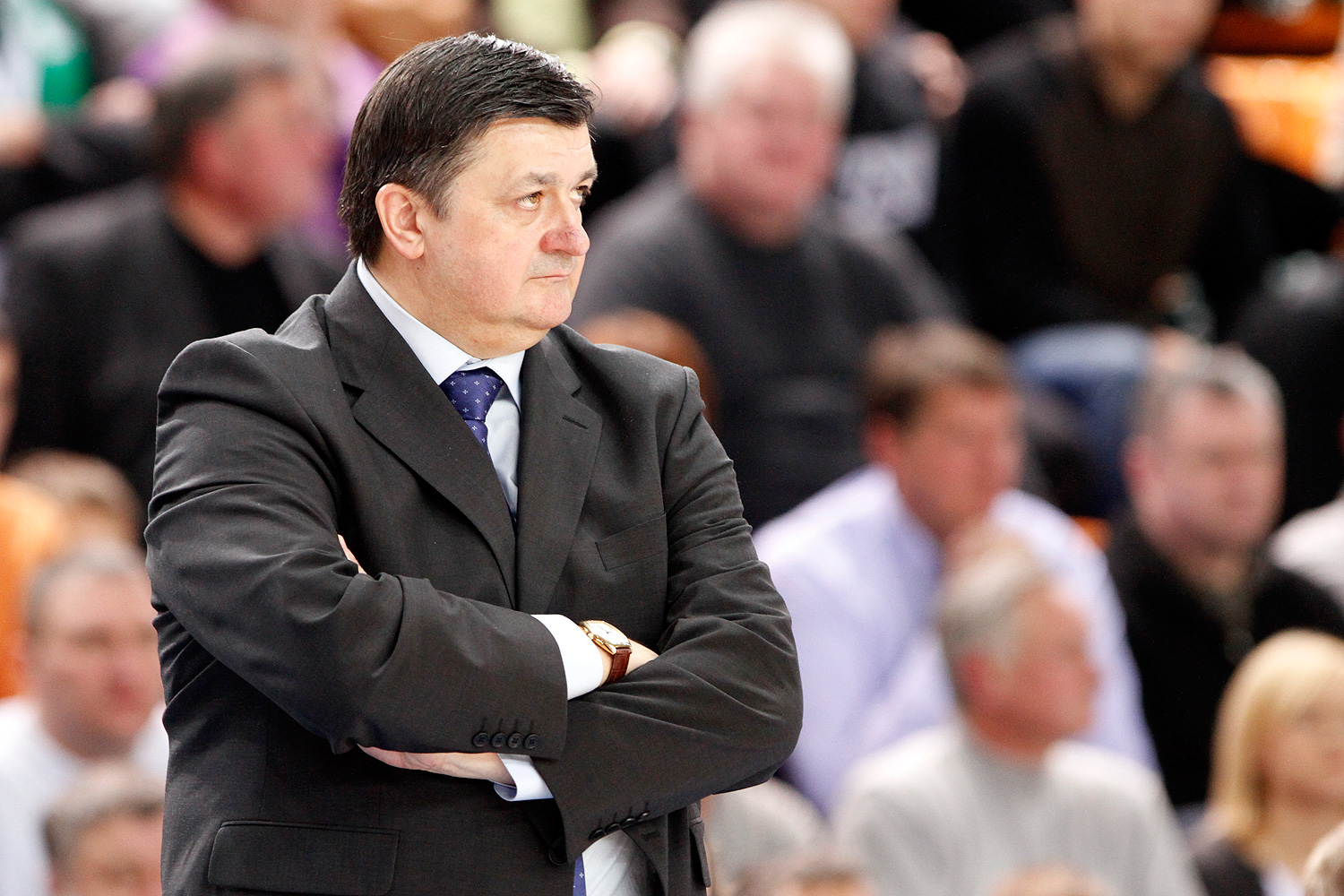 Basketball coach Aco Petrovic